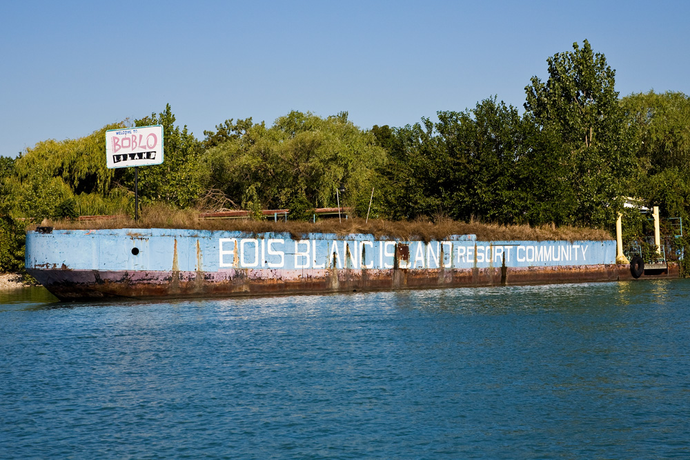 Boblo Island Entrance Amusement Park on the Detroit River from 1898 to 1993 Amherstburg, Ontario - Canada